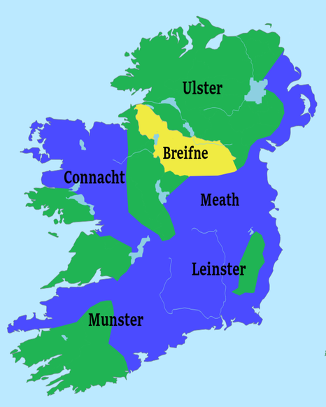 Map of Ireland in 1250 AD, showing Native Irish areas (Green) and Norman areas (Blue). Breifne shown in yellow. Adapted from Natural Earth Data using QGIS.